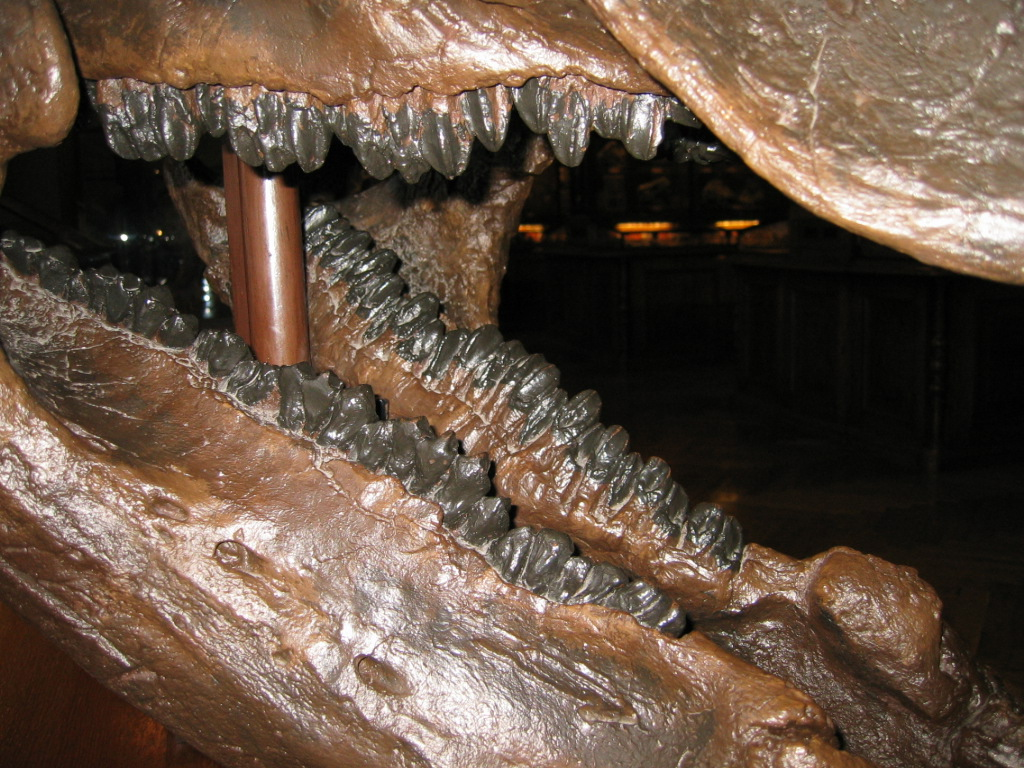 Skull of Triceratops with visible teeth in the Naturhistorisches Museum Wien (Vienna)